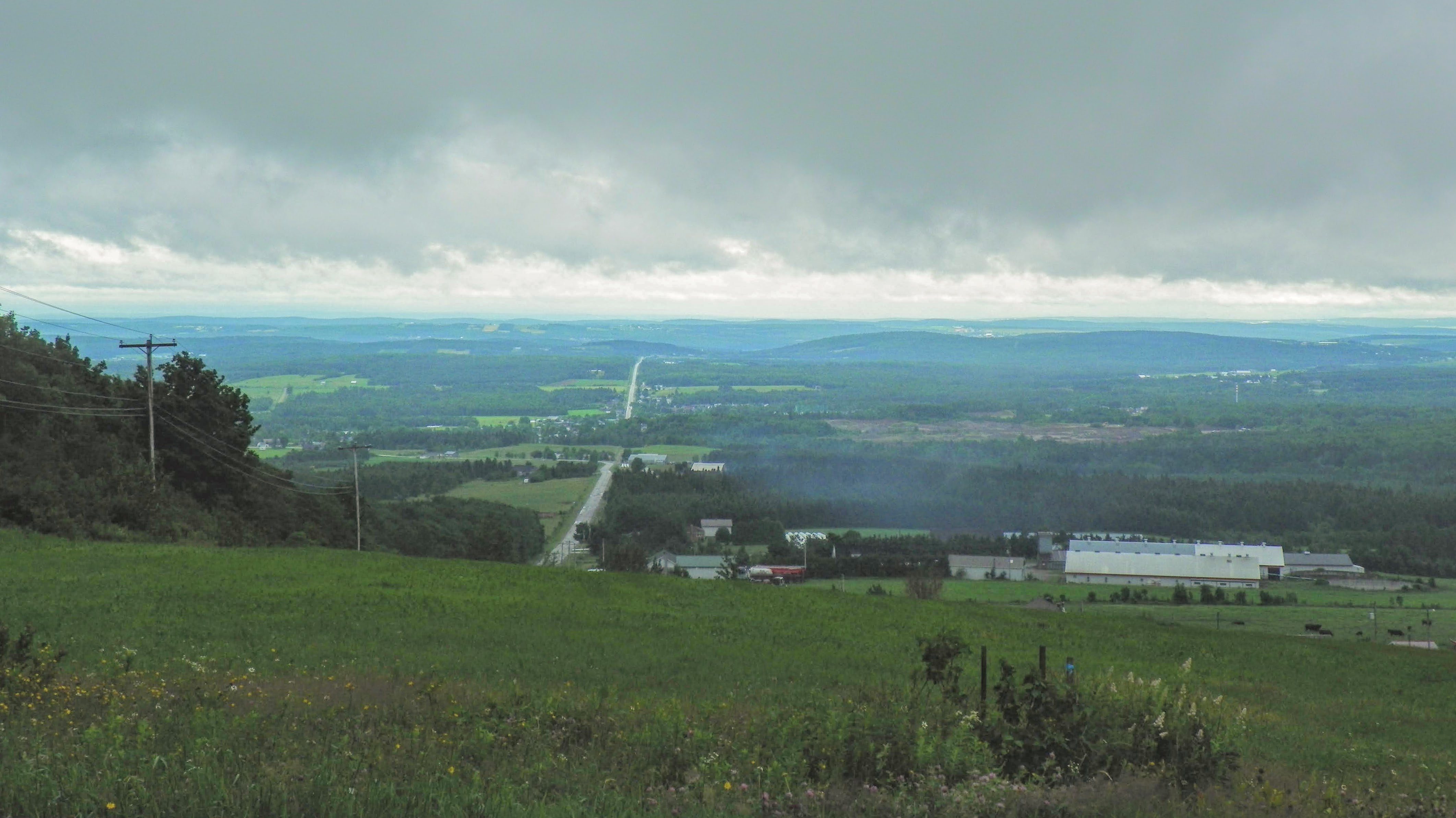 View towards Tring-Jonction from Saint-Frédéric, Québec.